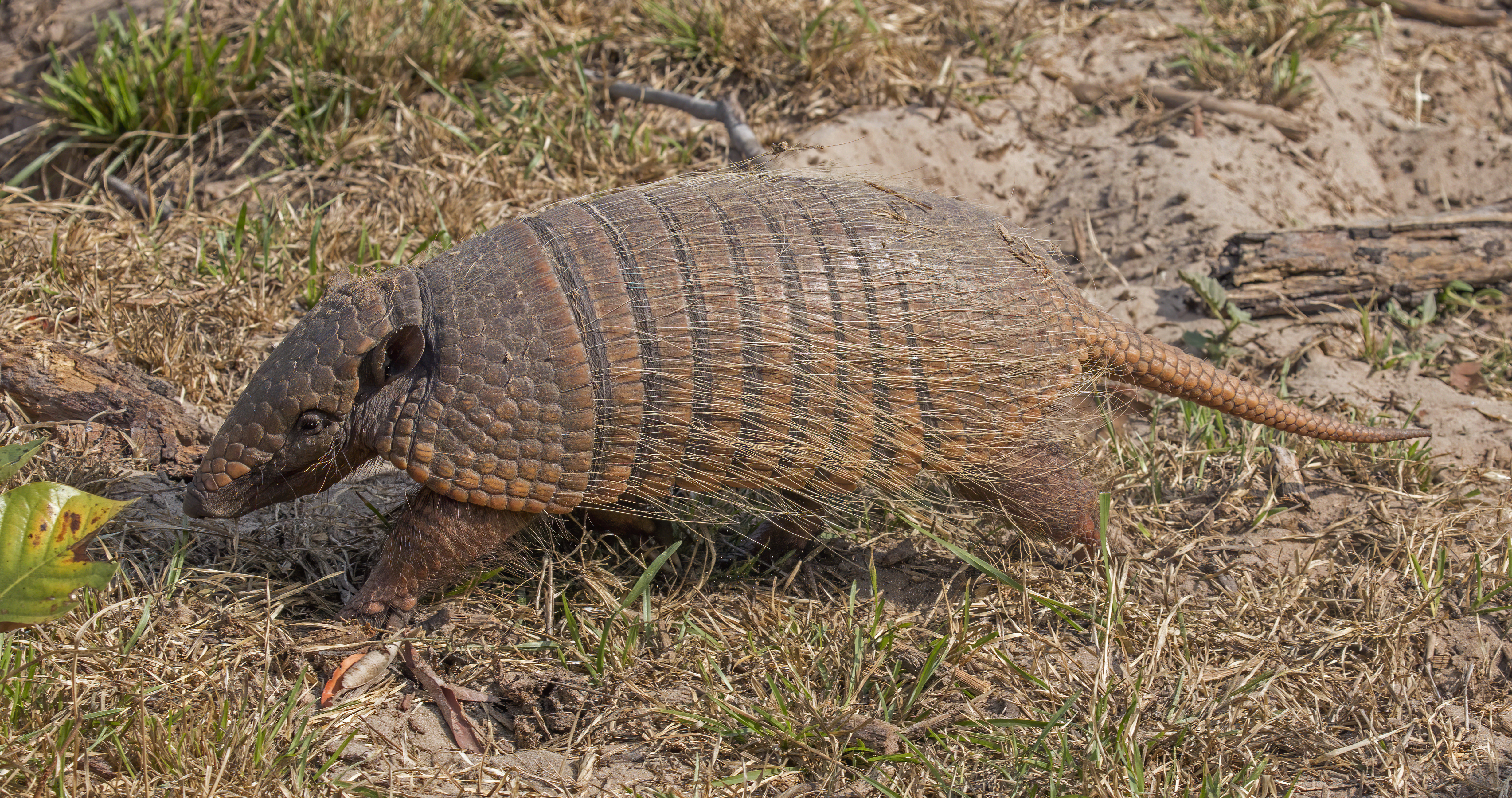 Six-banded armadillo (Euphractus sexcinctus), the Pantanal, Brazil